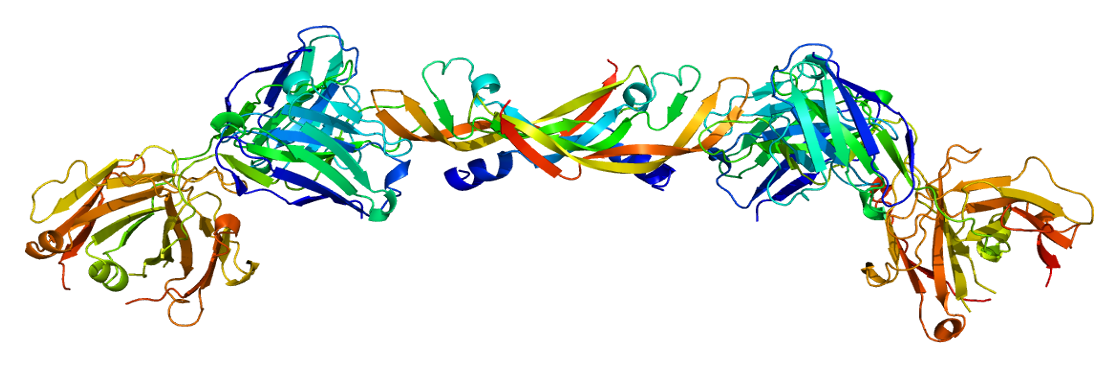 Structure of the VEGFA protein. Based on PyMOL rendering of PDB 1bj1.